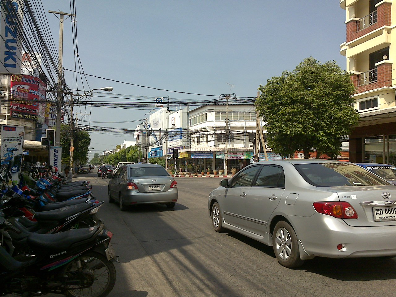 Thanee Street